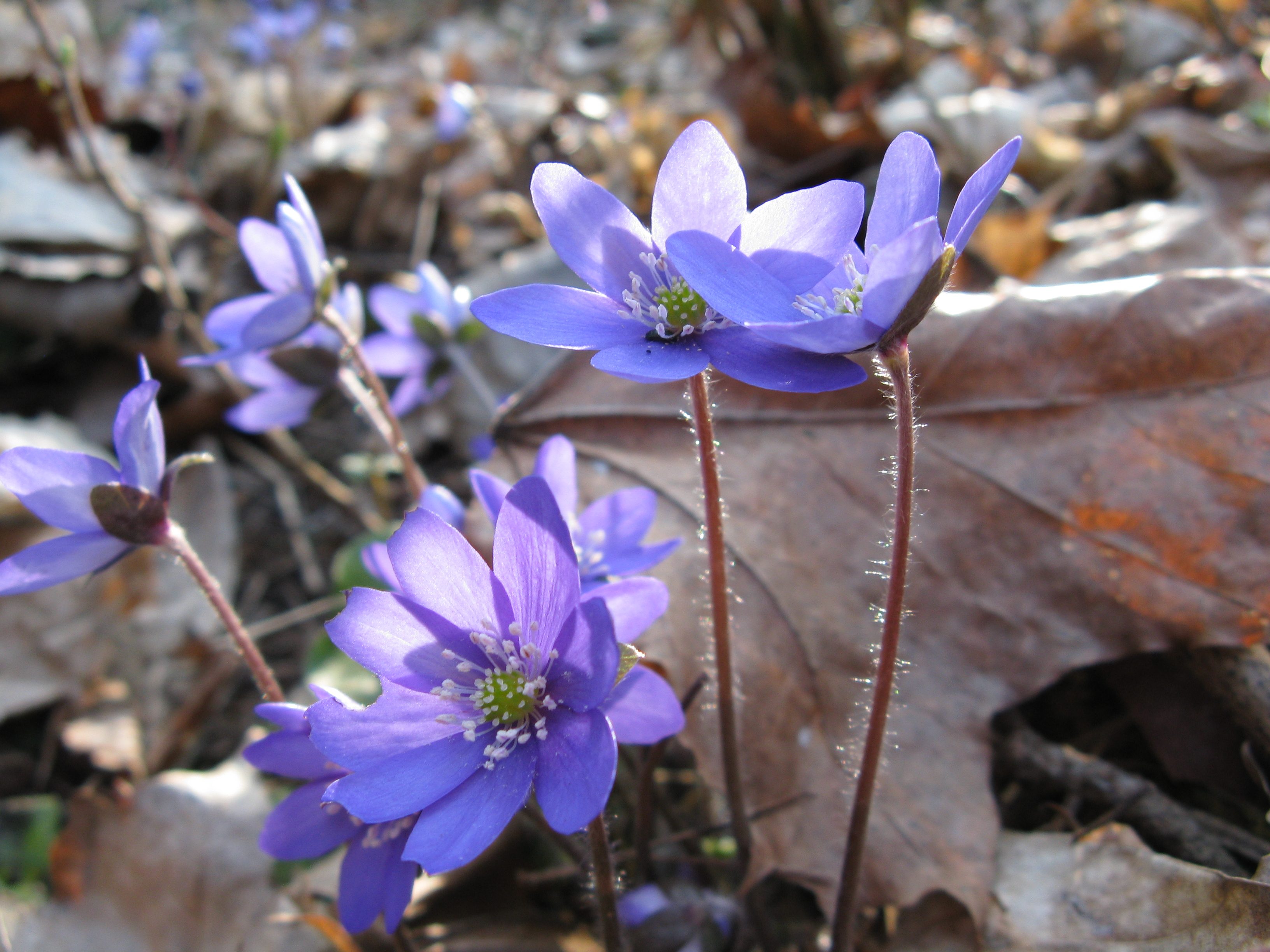 Anemone hepatica, near Drawsko Pomorskie